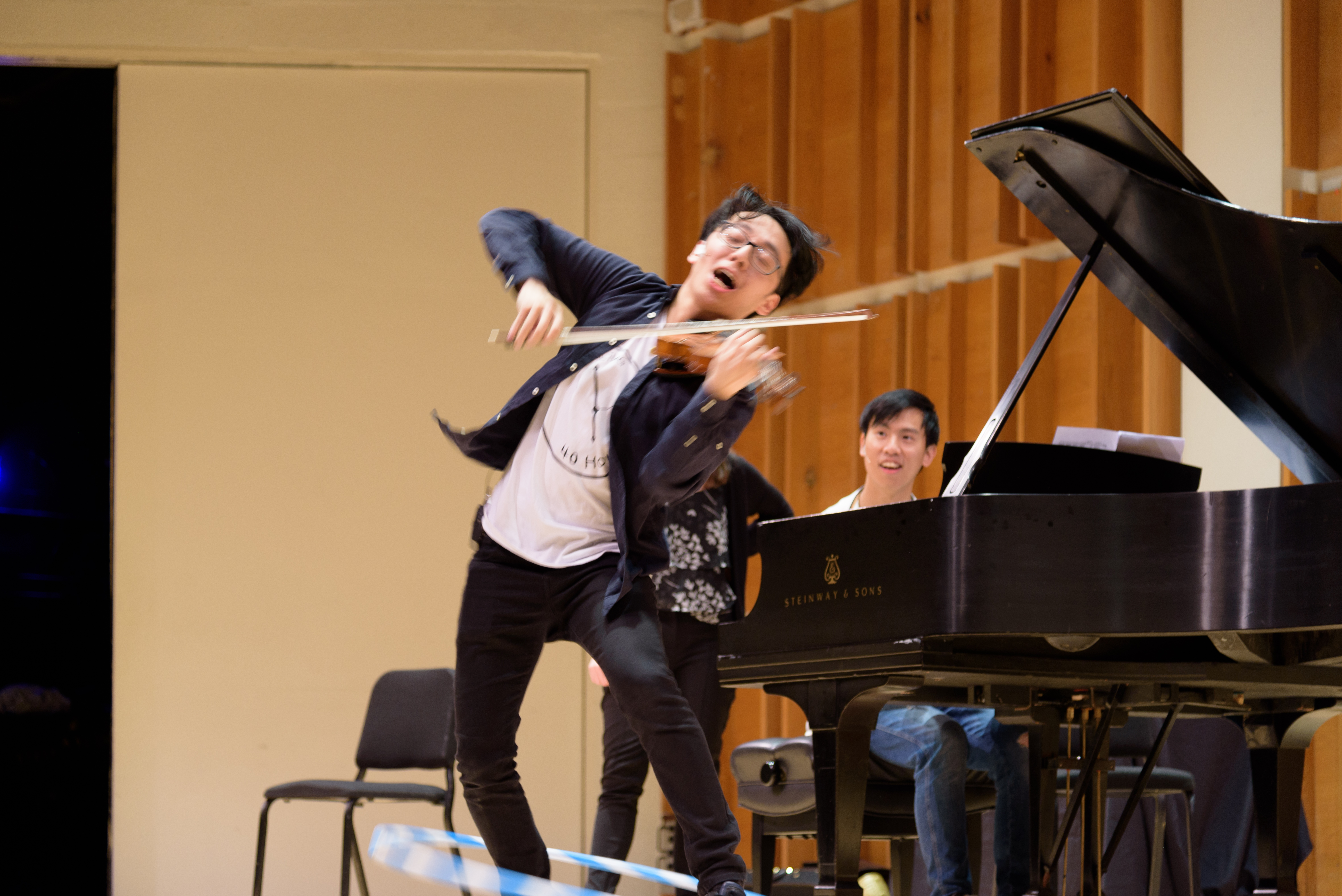 A TwoSet Violin performance at Merkin Concert Hall, Kaufman Music Center, New York City. As part of the encore Brett Yang attempts to play Introduction and Rondo Capriccioso while hula hooping, with Eddy Chen accompanying on the piano.